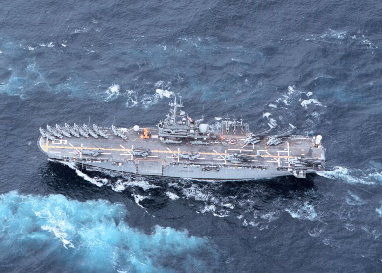 The U.S. Navy amphibious assault ship USS Guam (LPH-9) underway in the Atlantic Ocean en route to the Mediterranean Sea for a six month deployment, 10 October 1997. Guam and USS George Washington Battle Group were transiting the Atlantic Ocean to relieve the USS John F. Kennedy Battle Group.